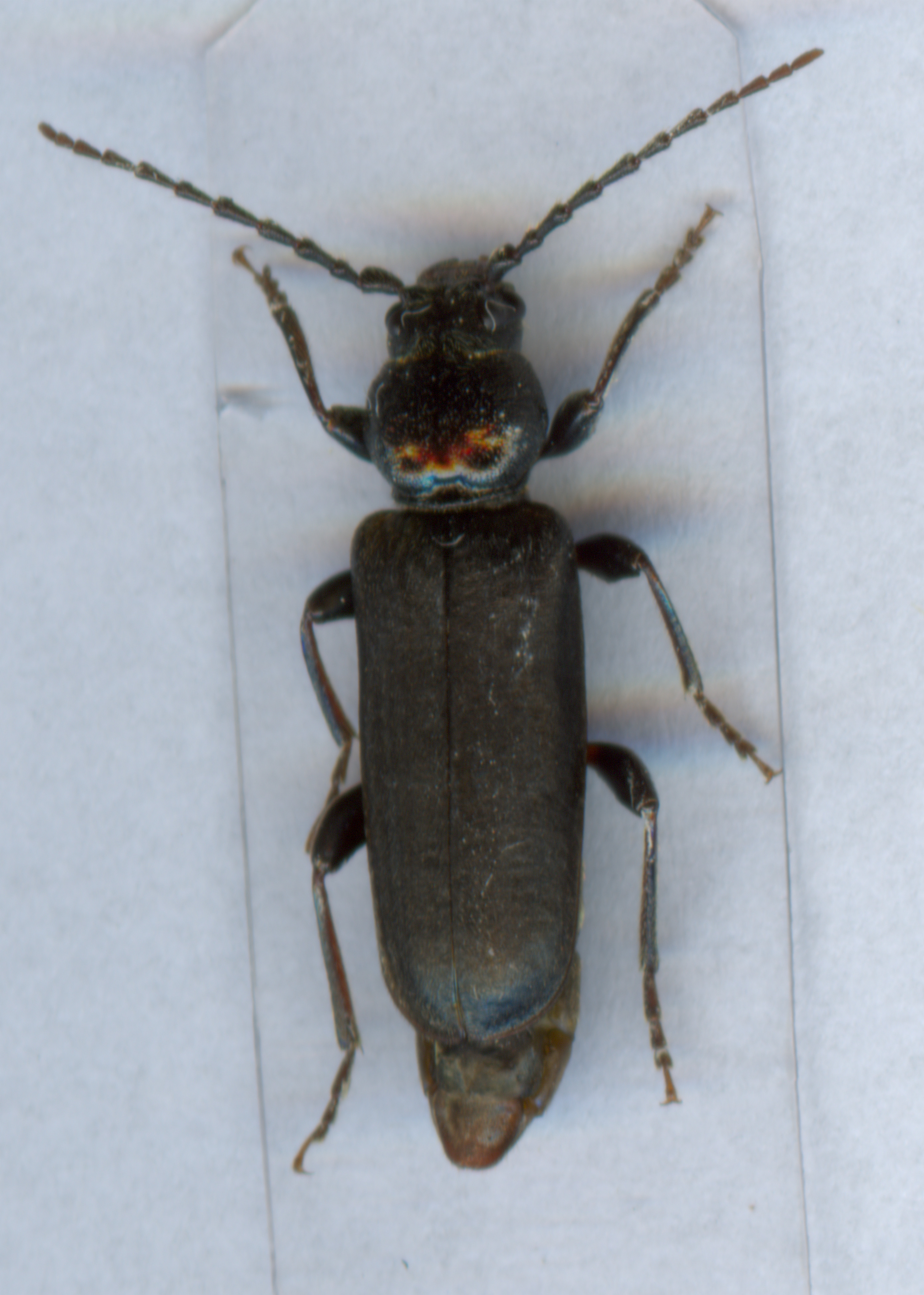 Tetropium castaneum